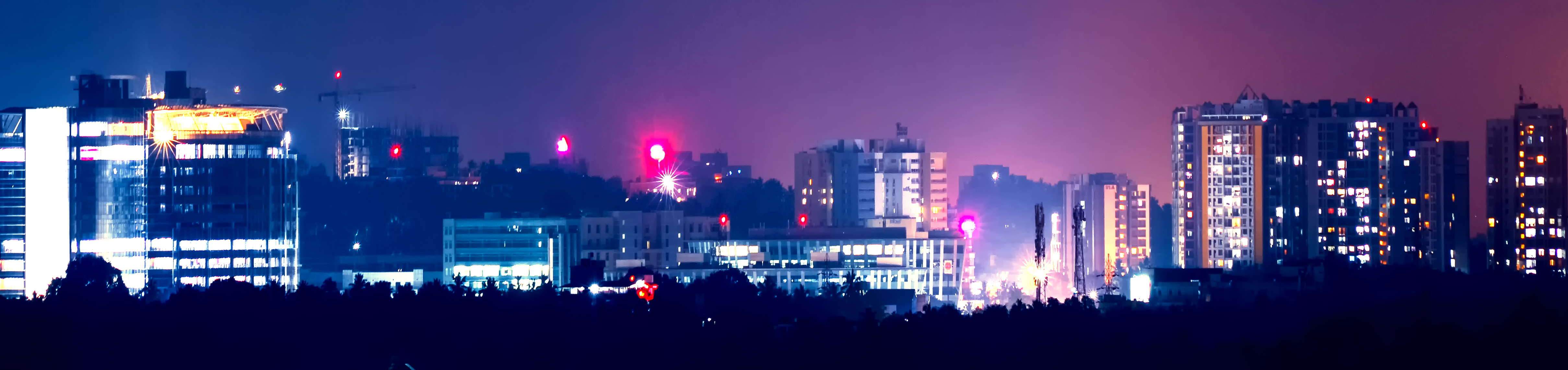 Trivandrum City North Panorama